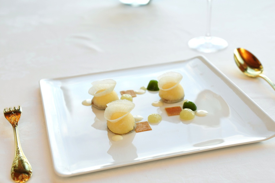 An hour outside of Milan, Chef Ezio Santin has been holding court at his restaurant Antica Osteria del Ponte since 1976. Though he was a late comer to the kitchen – before becoming a chef at his own restaurant at age 39 he was a salesman of foods and wines – this hasn’t stopped him from rising to the highest ranks of the culinary arts to win two Michelin stars. Tokyo residents have been lucky enough to enjoy his personal take on Lombardian regional menus on the 36th floor of Marunoichi Building since 2002, where Antica Osteria has a broad and elegant dinning room as well as two small private rooms facing Chiba and the harbor with comfortable plush couches, a Murano chandelier and entertaining historical photographs. A meal there starts unobtrusively, with a refreshing simplicity. The waiter pours a glass of Monsupello, a dry spumanti made of Pinot Nero – a red grape used for white sparkling wine -- that is snappy on the upper palate. The amuse bouche is a single delicate rosemary cracker topped with a creamy ricotta cheese and black olive mix. This is quickly followed by another taste sensation -- a single firm scallop dipped in olive oil and topped with sweet yellow and red peppers, onions, celery, capers and cucumber. A selection of bread is offered, from whole wheat bread with a crunchy crust to pale white, light ciabata to chewy nut breads. By Tokyo JapanTimes